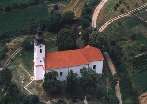 Závod, Hungary, aerialphotography